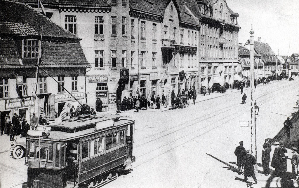 Liepāja tram Nr. 1 at Liela st.